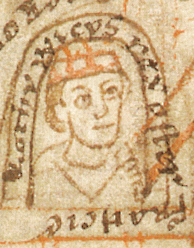 Louis III the Younger, King of Eastren Franks